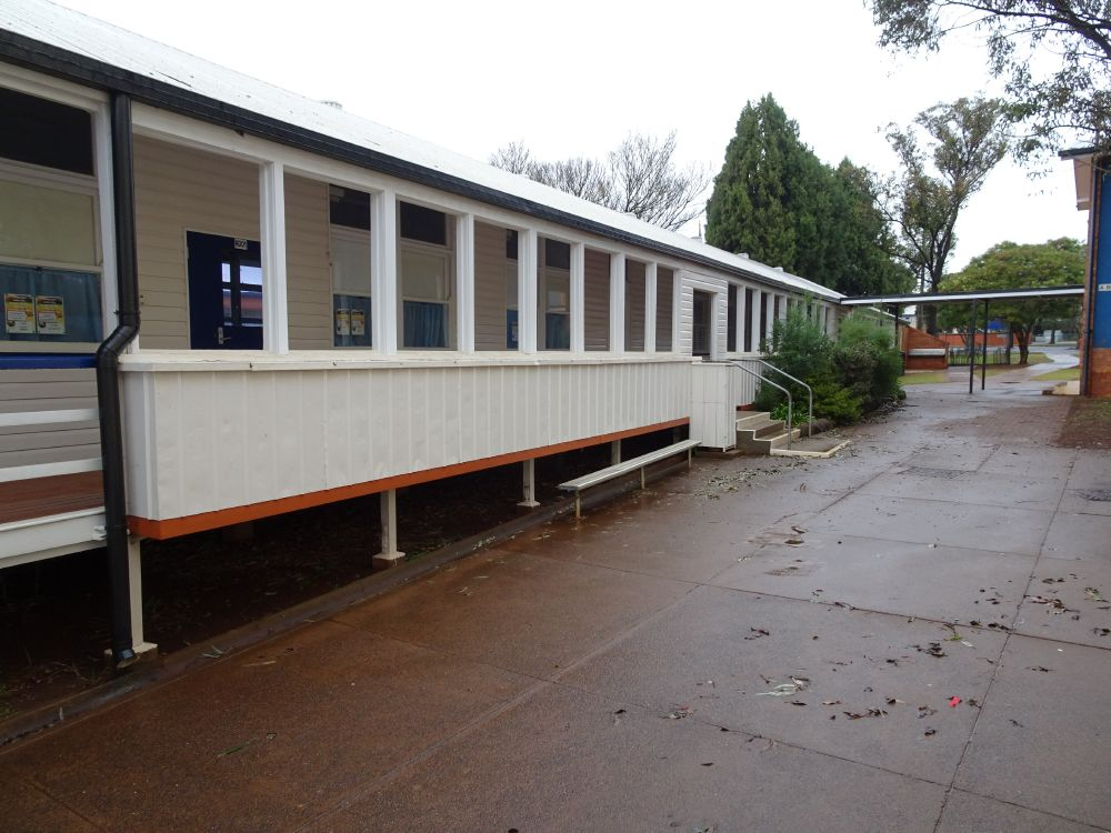 650037 Block K (former domestic science), west side looking southeast